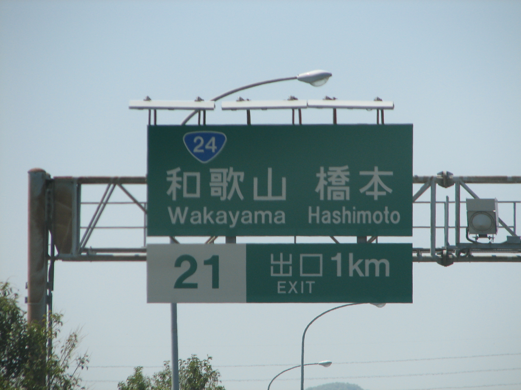 Wakayama IC